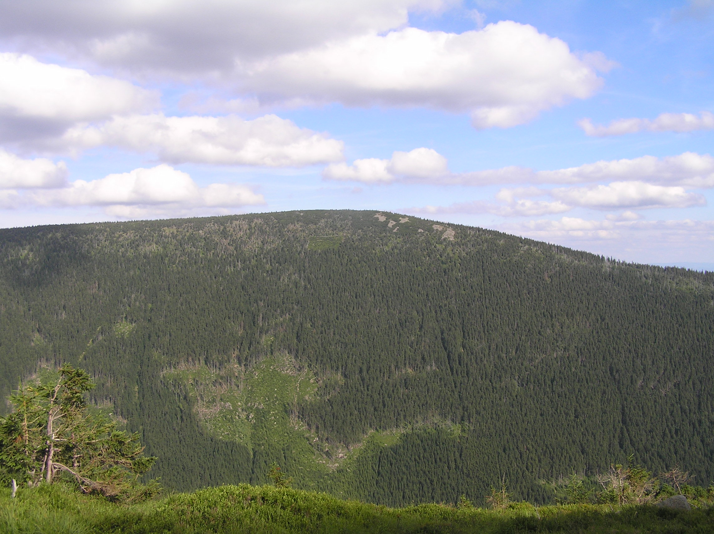 Růžová hora, Krkonoše Mountains, Czech Republic